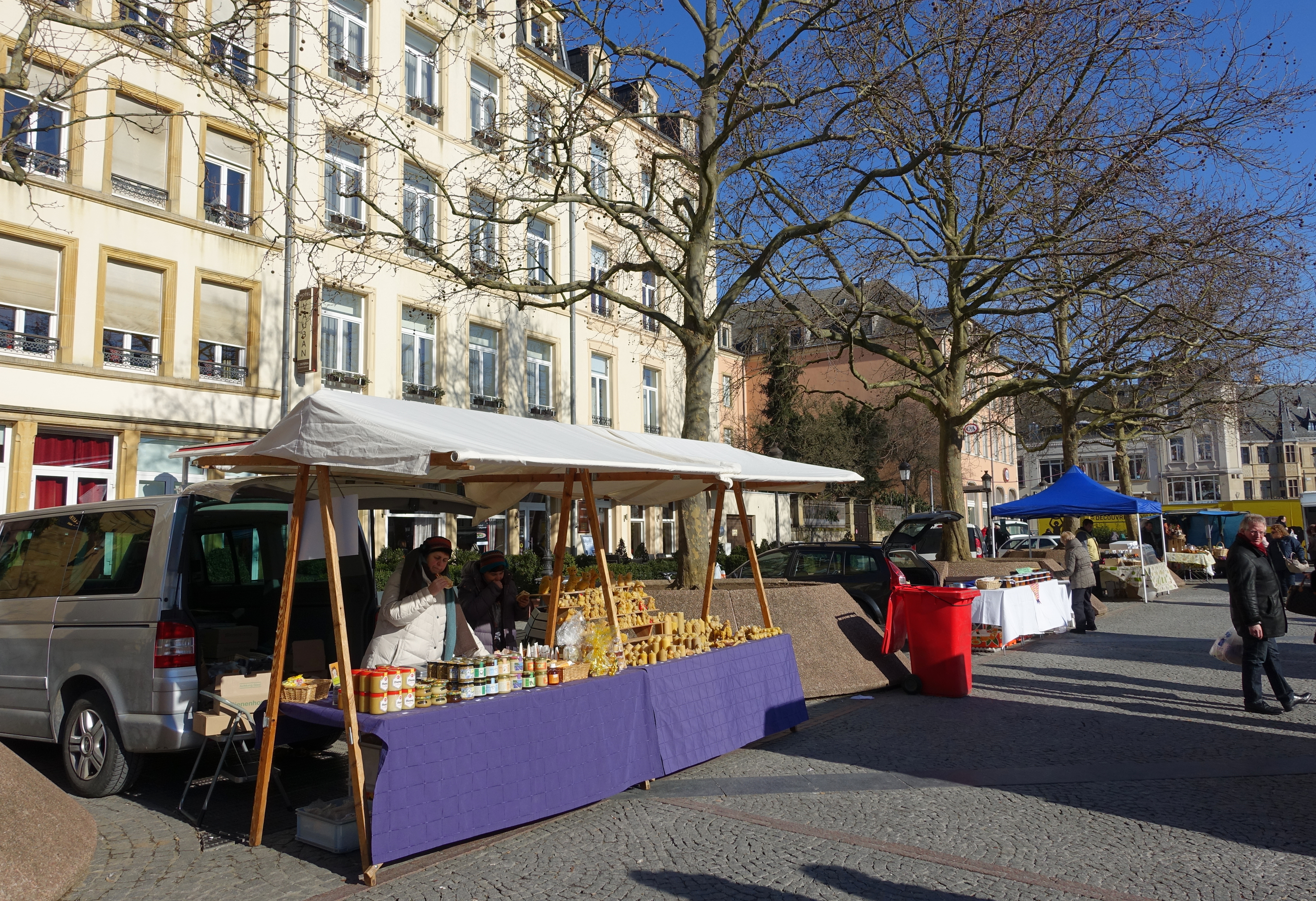 Place Guillaume II, Luxembourg City, Luxembourg.